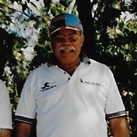 Mr Prime Minister Qarase with Mr P. Dubuis in the Lau Group Fiji Island 2004